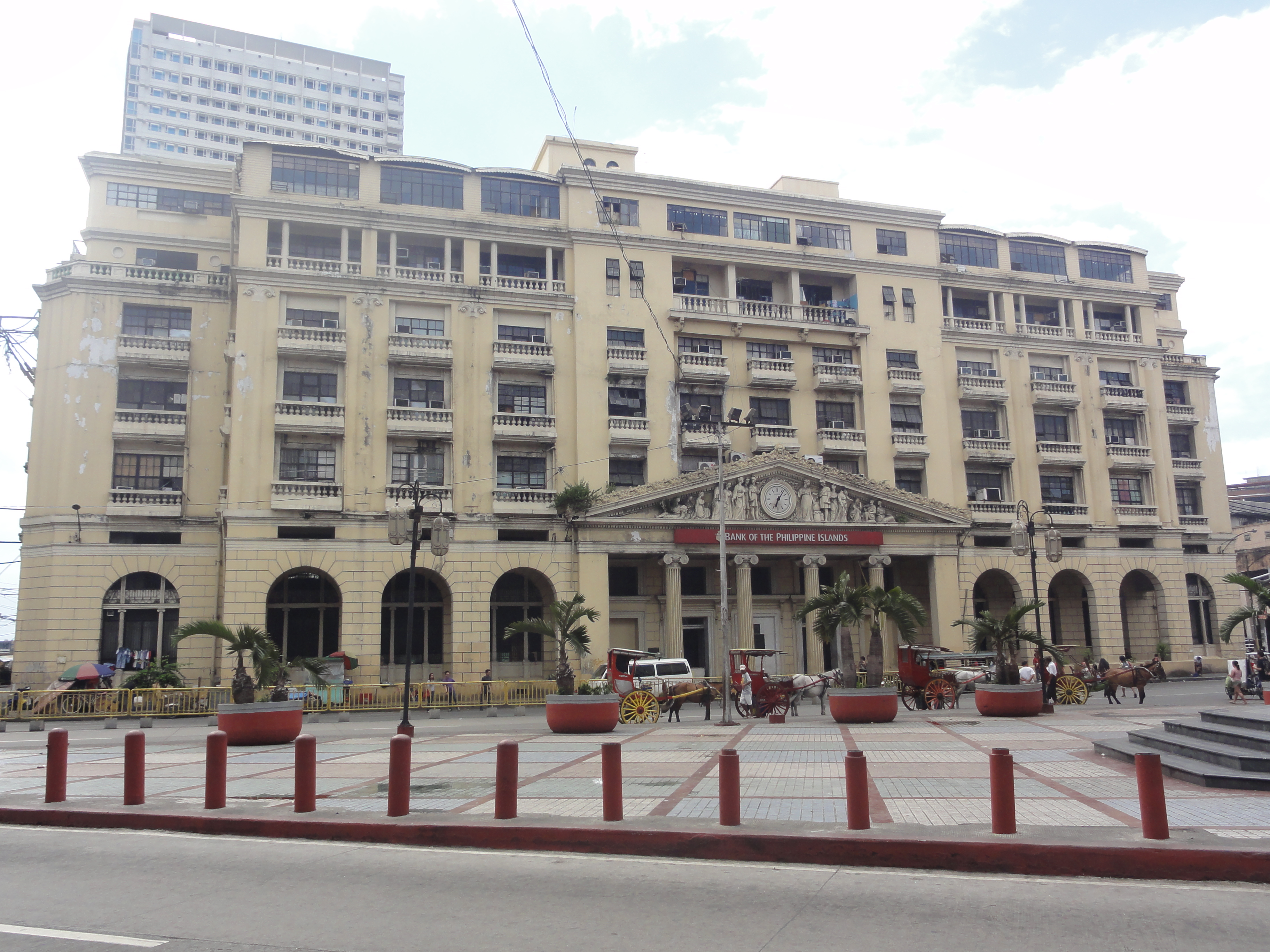 Front view of Roman Santos Building at Plaza Lacson corner Escolta, Santa Cruz, Manila as of November 2014